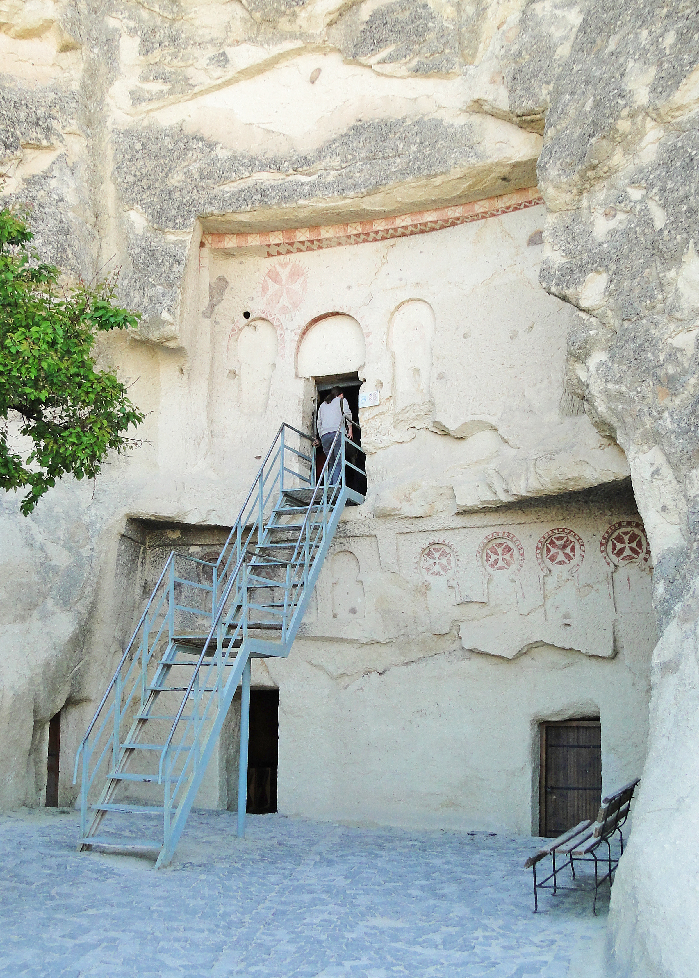 Çarıklı Kilise, Göreme Open Air Museum, Turkey